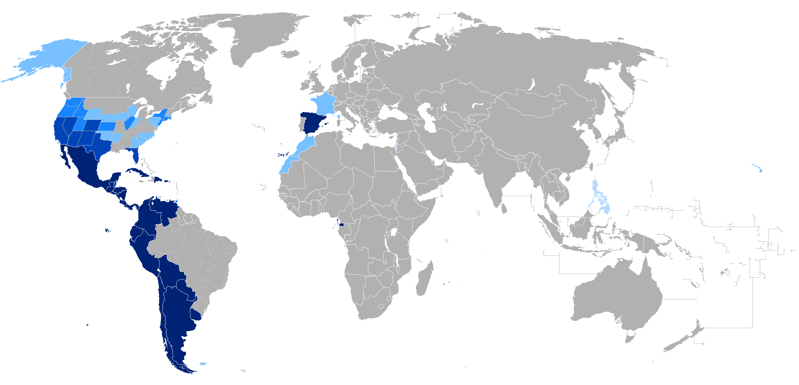 Map-Hispanophone_World